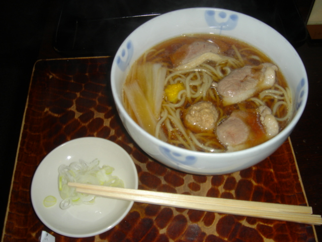 at matsuya, tokyojapanese noodles with duck and welsh onions in soupkamo-nanban